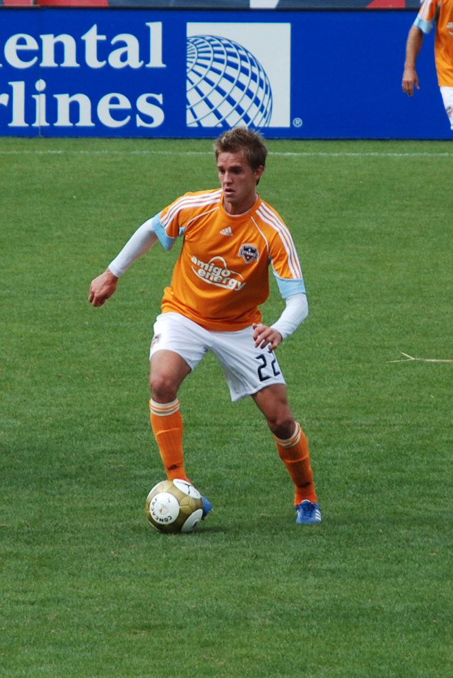 Scrimmage – Houston vs. Montreal at Robertson Stadium